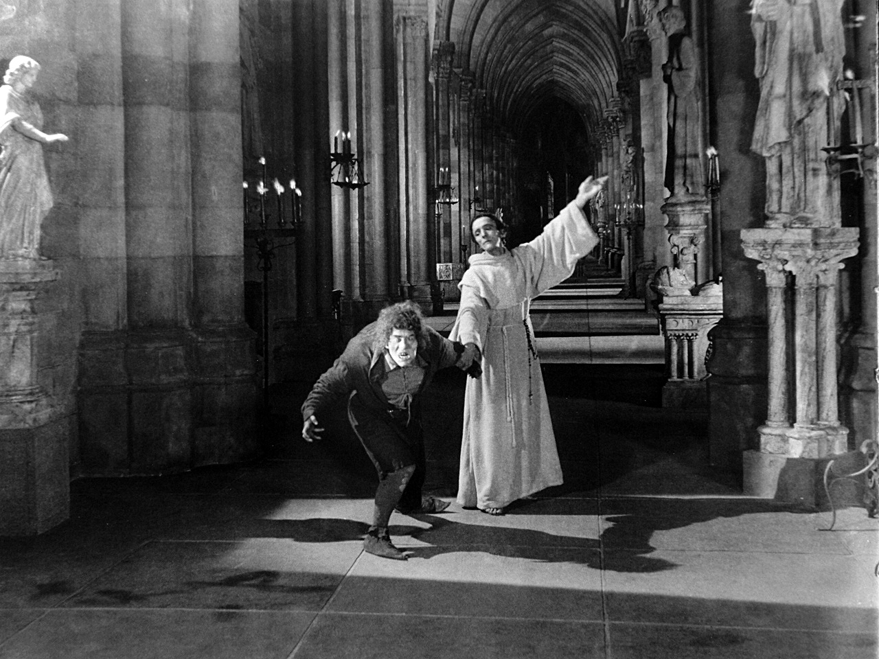 Publicity still from film Hunchback of Notre Dame (1923); The film itself entered the public domain in 1951.